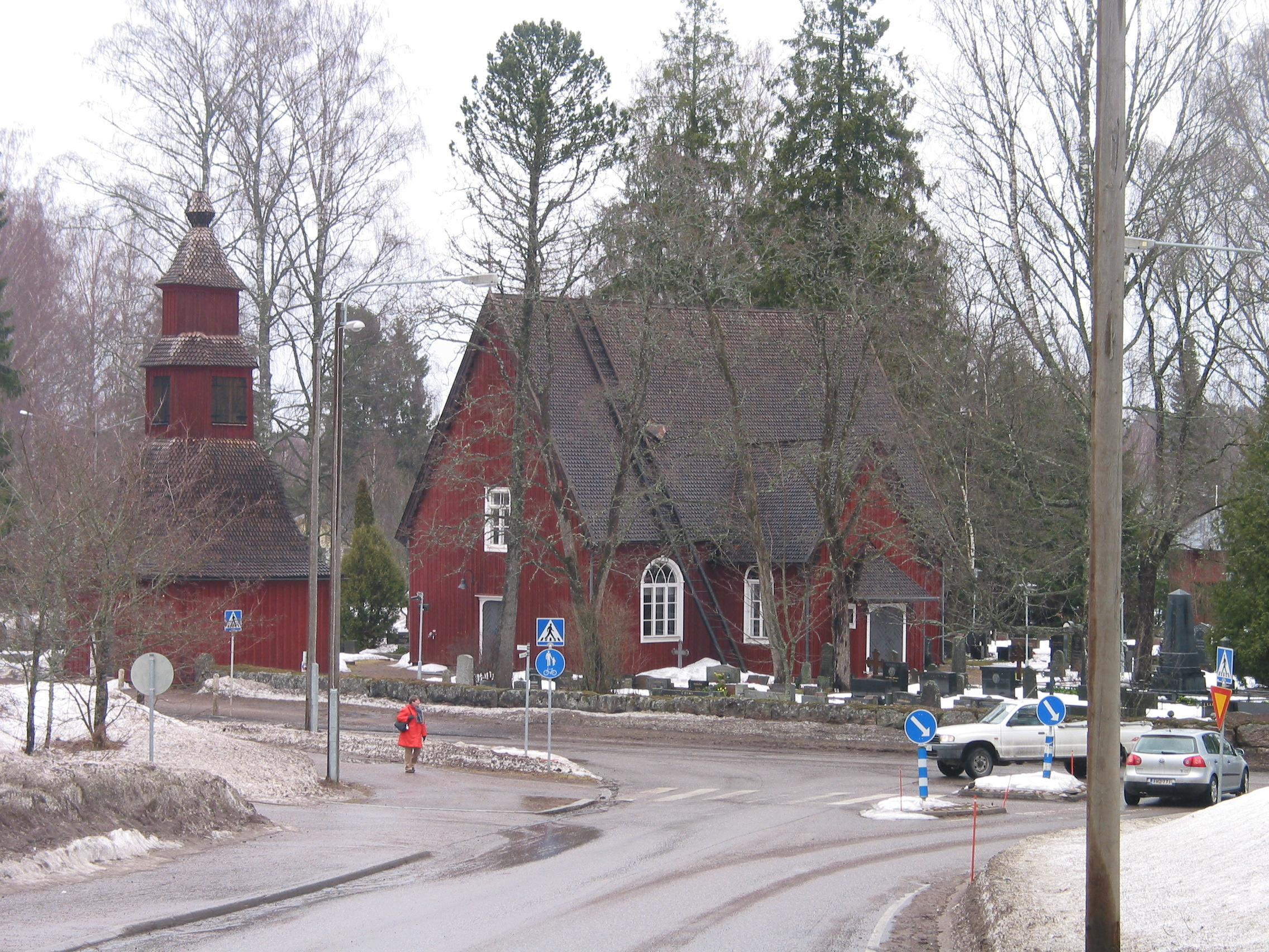 Sammatti Church (built in 1754–1755) and belfry (built in 1763), Lohja, Uusimaa, Finland